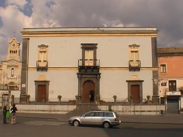 Adrano - Palazzo Bianchi